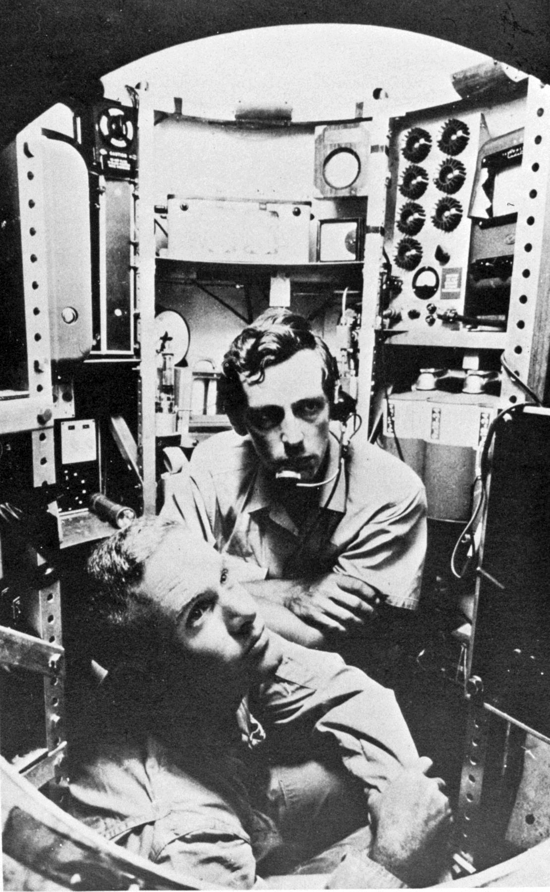 Lieutenant Don Walsh, USN, and Jacques Piccard in the bathyscaphe TRIESTE. Location: Marianas Trench Photo Date: 1960 Image ID: ship3224